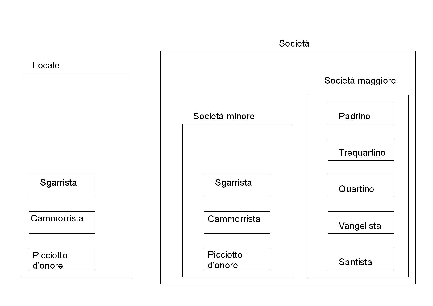 Locale and Società in 'Ndrangheta mafia-type organization